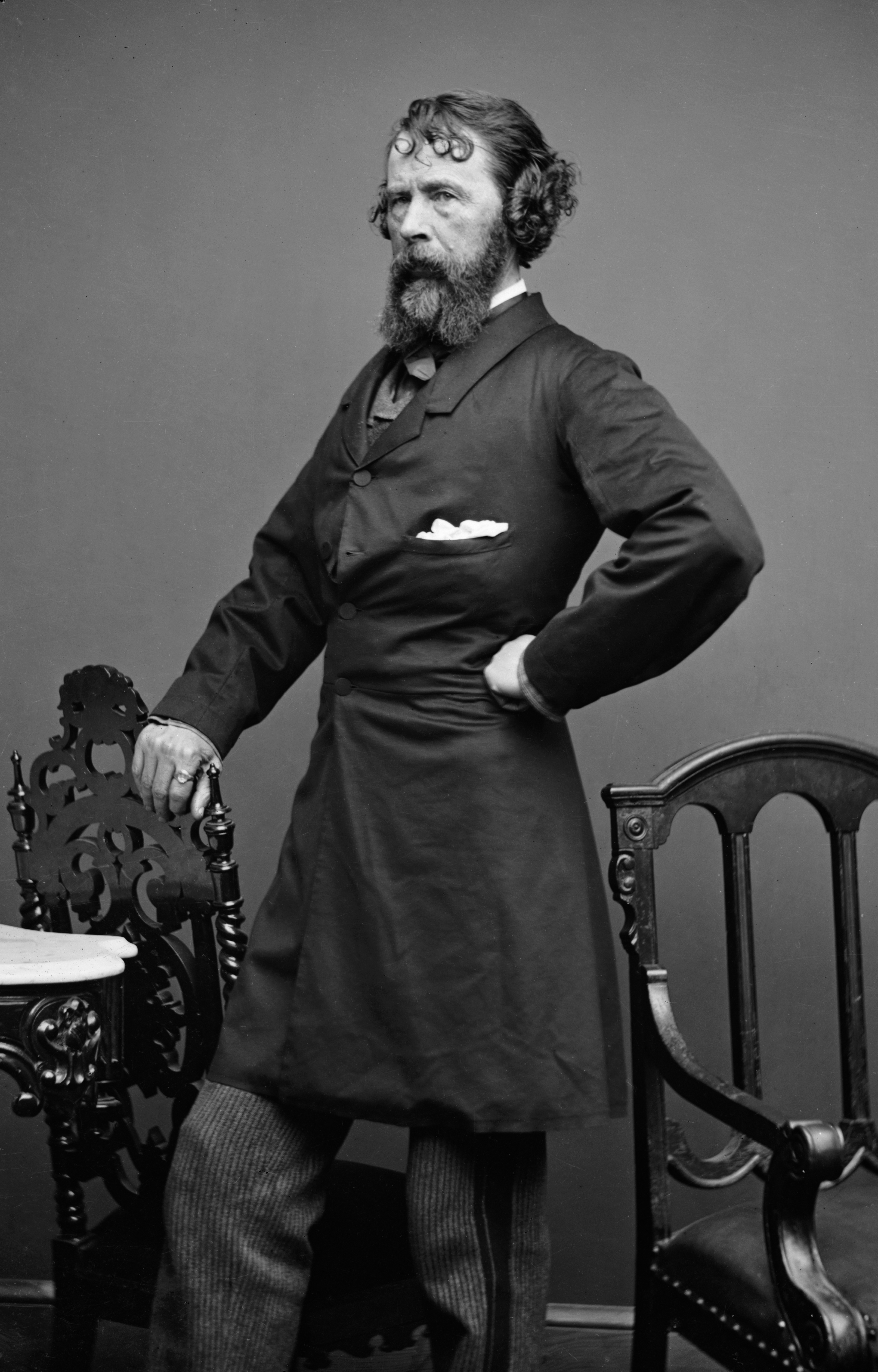 Image of Nathaniel Parker Willis, circa mid to late 1850s. The Library of Congress Prints and Photographs Division, LC-BH82-5206. Also reprinted in Sentiment and Celebrity: Nathaniel Parker Willis and the Trials of Literary Fame (1999) by Thomas N. Baker (ISBN 0195120736), which dates as "ca. mid 1850s".